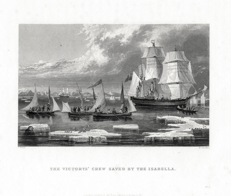 THE VICTORYS' CREW SAVED BY THE ISABELLA." Attribution inscriptions are "J. Ross" and "E. Finden" (an engraver of this and other Arctic works). Bottom inscription "London Published 1834 by Captain J. Ross, R.N." Printed by "McQ"